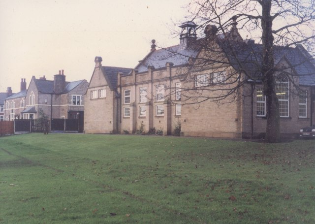 Balshaw's Grammar School - Leyland. The former Balshaw's Grammar School (in the background the headmaster's residence). Was purchased by the RC Church in 1932 and served as a Catholic school.